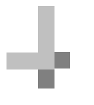 Buttress type (ground plan) , based on information at [1] and [2]